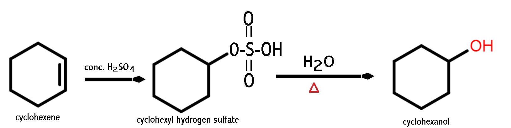 Cyclohexanol synthesis from cyclohexene